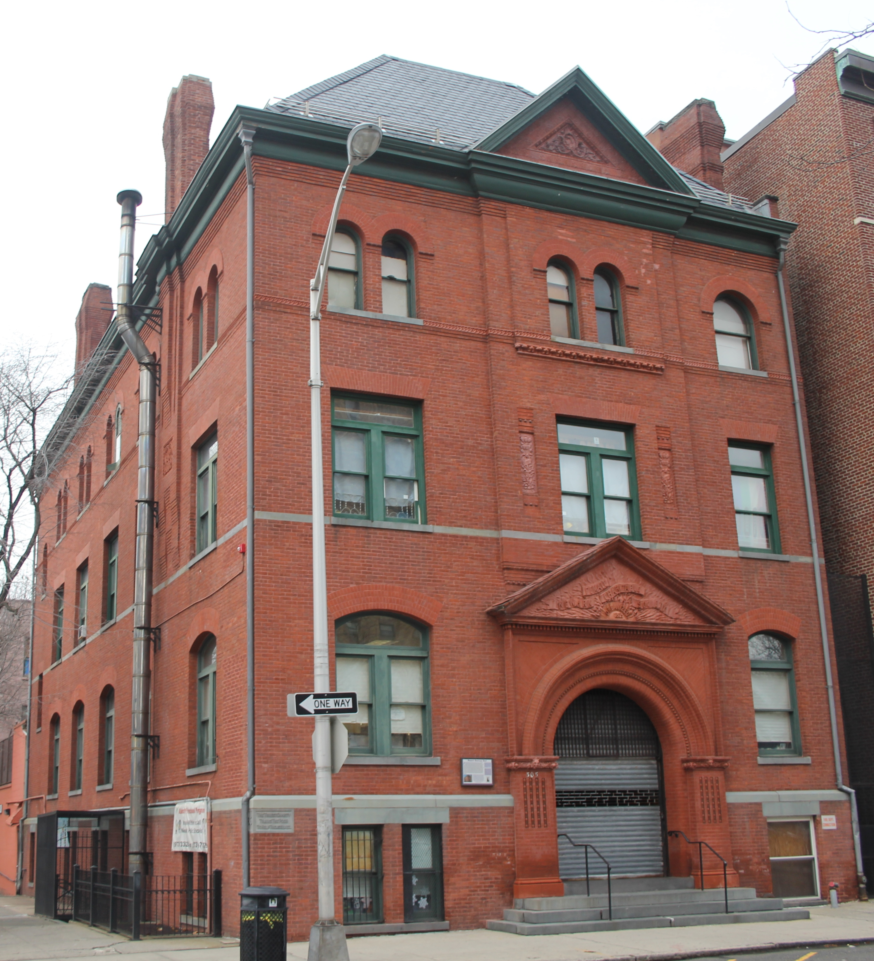 Newark Female Charitable Society main building at 305 Halsey Street, Newark, New Jersey. Society founded 1803, building completed 1886, now known as Newark Day Center. Listed on National Register of Historic Places along with adjacent 41 and 43 Hill Street. NRIS #79001485.